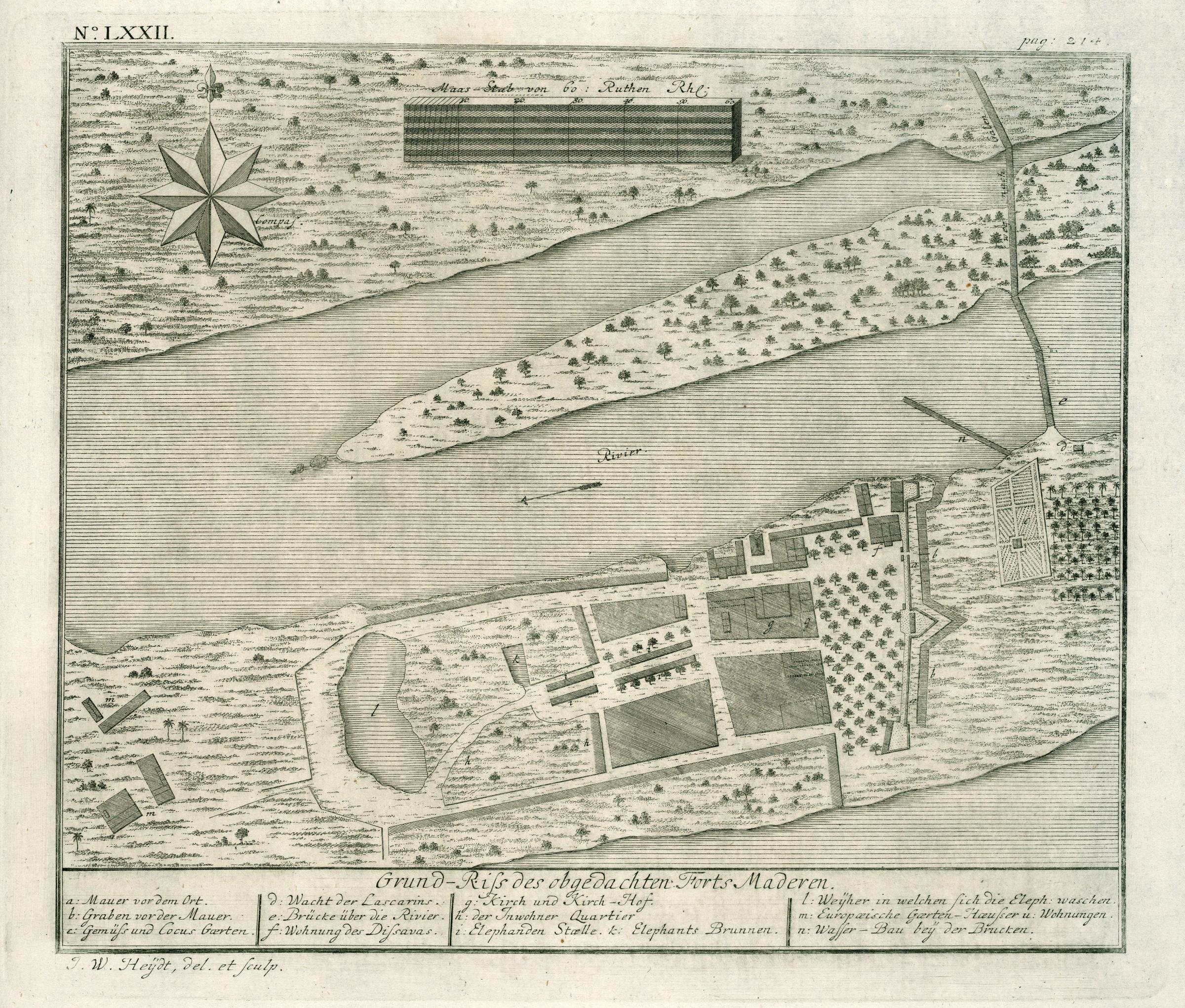 Map of Fort Matara. Grund-Riss des obgeachten Forts Maderen. Top left: No: LXXII. Top right: pag. 214. Key: a: Mauer vor dem Ort. / b: Graben vor der Mauer. / c: Gemüss und Cocus Gaerten. / d: Wacht der Lascarins. / e: Brücke über die Rivier. / f: Wohnung des Dissavas. / g: Kirch und Kirch-Hof. / h: der Inwohner Quartier. / i: Elephanden Staelle. k: Elephants Brunnen. / l: Weijher in welchen sich die Eleph: waschen. / m: Europaeische Gaerten-Haeusser u: Wohnungen. / n: Wasser-Bau beij der Brucken..